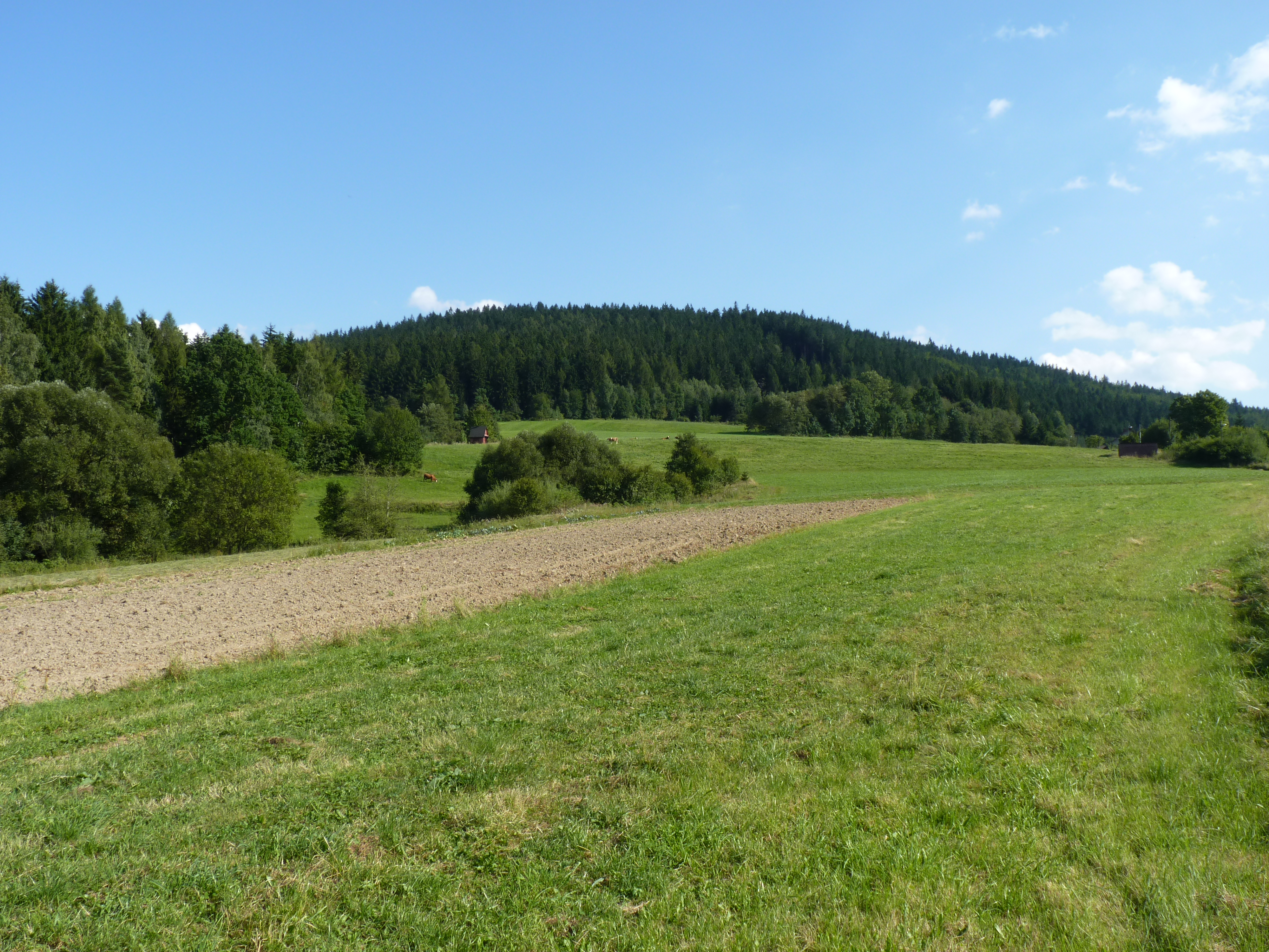 Zelená hora ("Green mountain"). Moravian-Silesian Beskids, Moravian-Silesian Region, Czech Republic